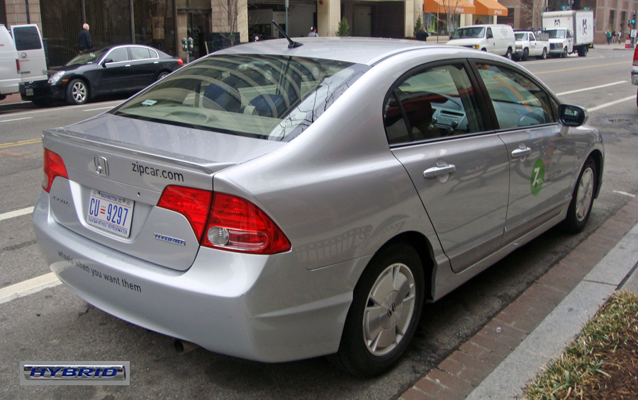 Honda Civic Hybrid used by Zipcar, a carsharing service. Washington, D.C.